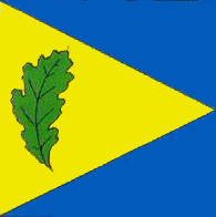 Coat of arms Kostopol (Rivne Ukraine)